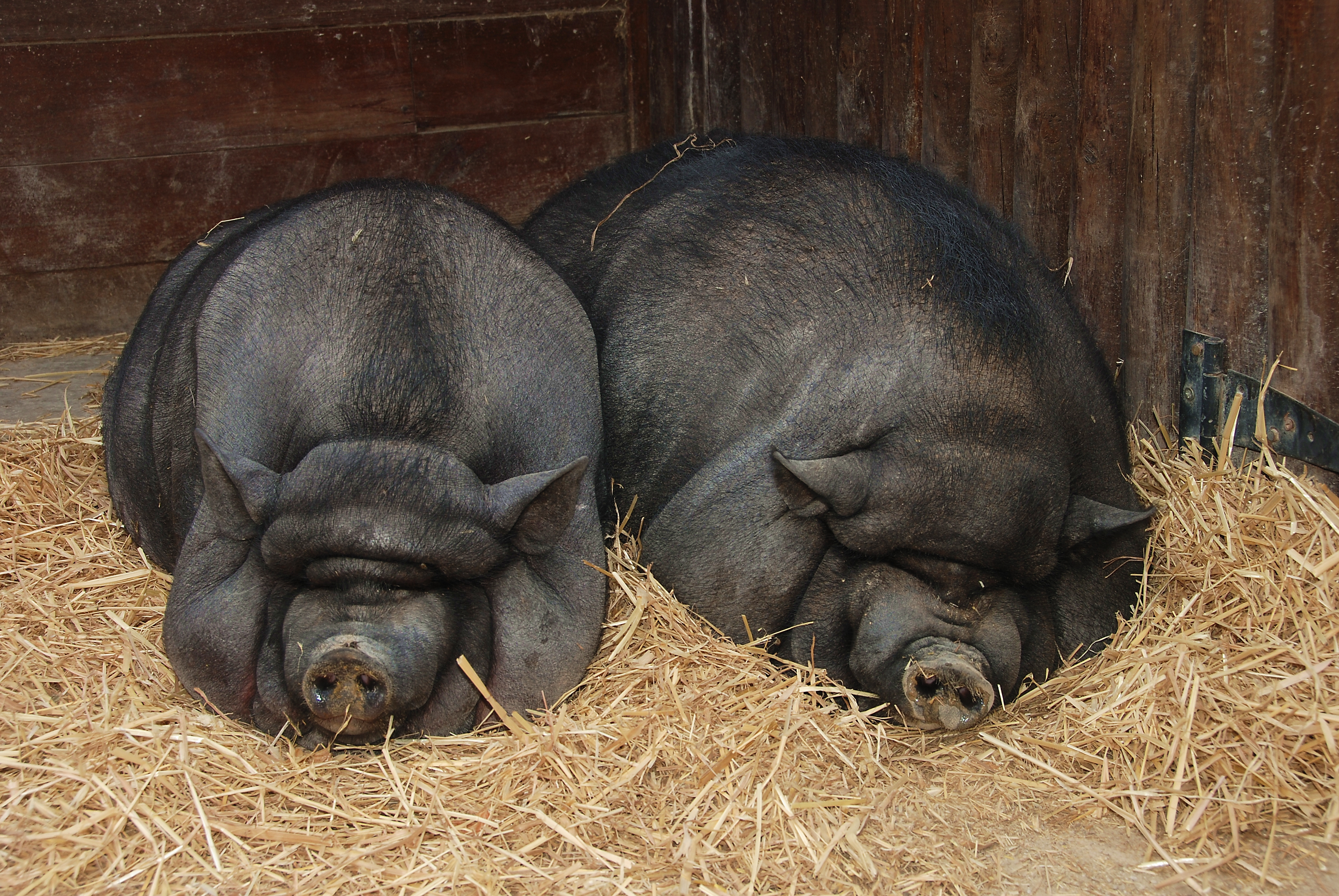 Two Pot-bellied pigs (Sus domesticus) resting at the Lisbon zoo.